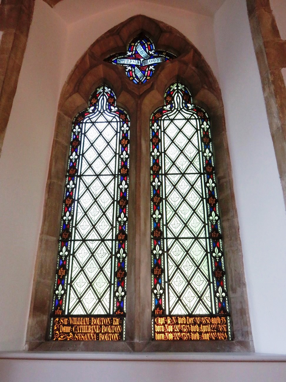 Photo of memorial window at St Mary's Burnham Market, Norfolk.